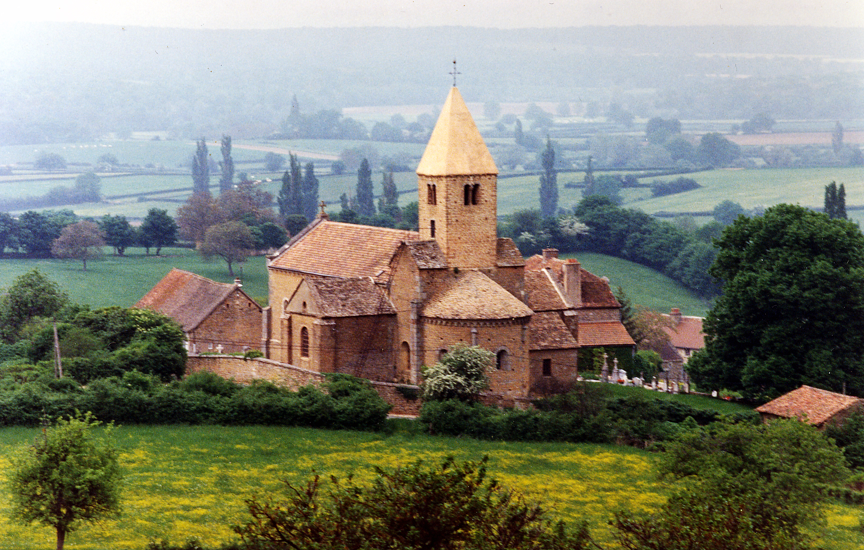 La Chapelle-sous-Brancion, Cities and villages in Saône-et-Loire, Burgundy The first mention of a church on this site was in 964 as part of the Cluny charter. This Romanesque church (dedicated to St. Peter) was built in the 12th. century. It was declared an historic monument in the first major listings undertaken by the French government in 1863. It escaped the heavy handed early restorations such as found at Carcassonne because the church was already in good condition, having been in more or less continuous use, and because it was small enough and remote enough to escape the destructions of the revolutionary period. This is another of those serene and magical French buildings that is too 'minor' to have its spiritual essence destroyed by excessive visiting and the car parks that go with it.La Chapelle-sous-Brancion, Burgundy